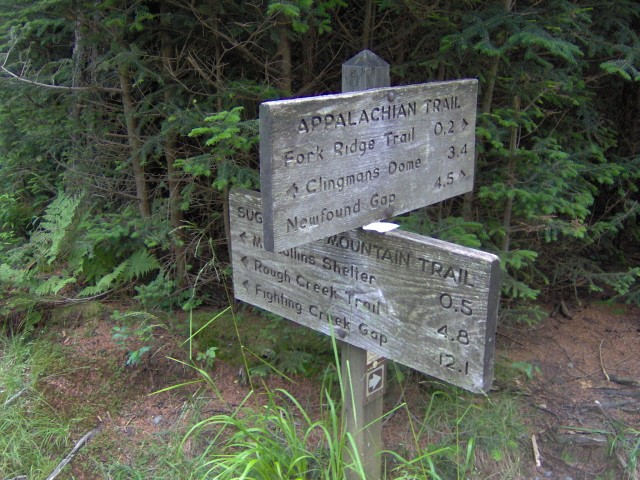 The junction of the Sugarland Mountain Trail and the Appalachian Trail junction in the Great Smoky Mountains National Park of the southeastern United States.